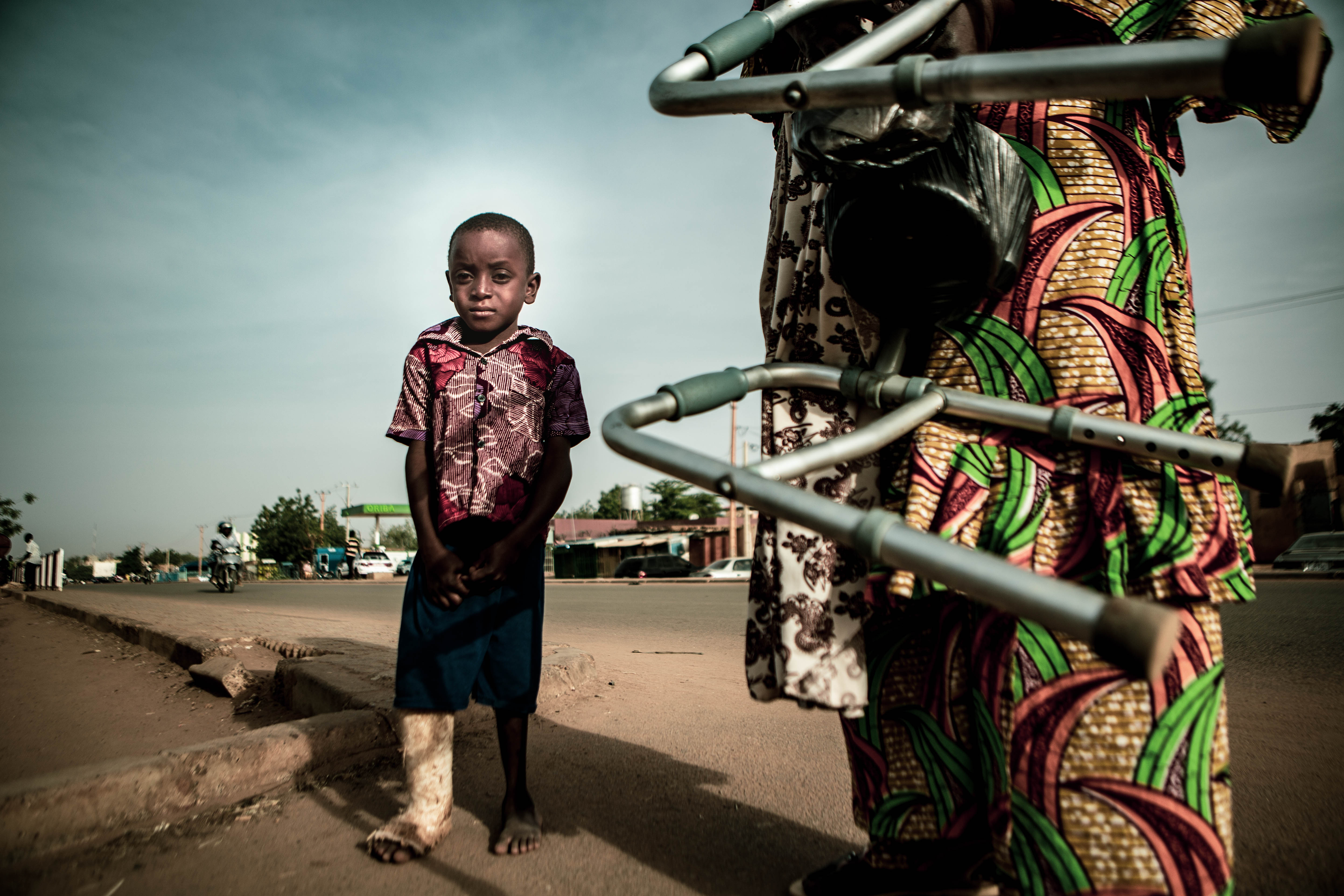 This is an image with the theme "Africa on the Move or Transport" from: Niger